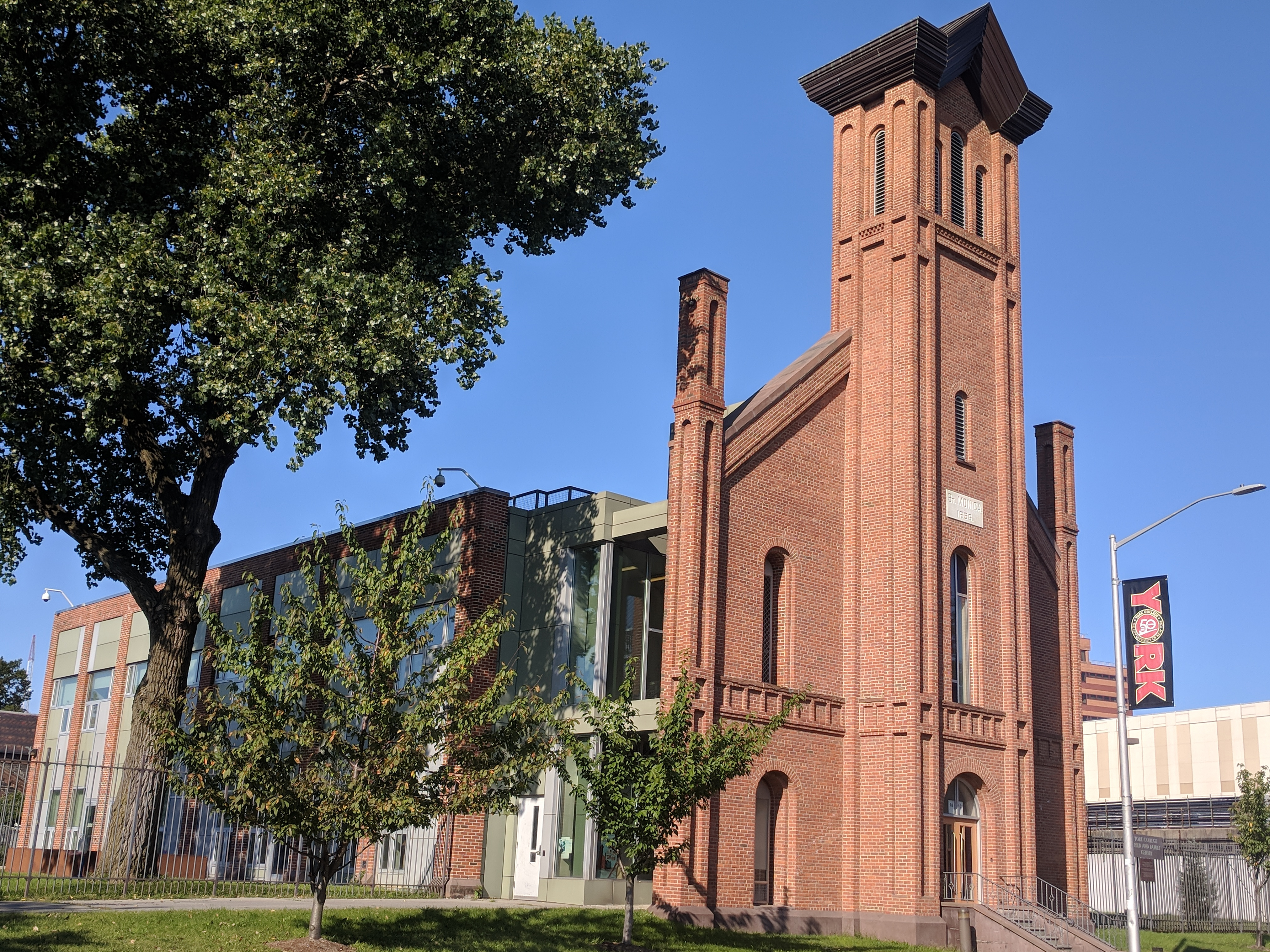 St Monica's Roman Catholic Church's central campanile is reminiscent of Romanesque architecture is one of the earliest surviving examples of 18th century early Romanesque revival architecture in N.Y.